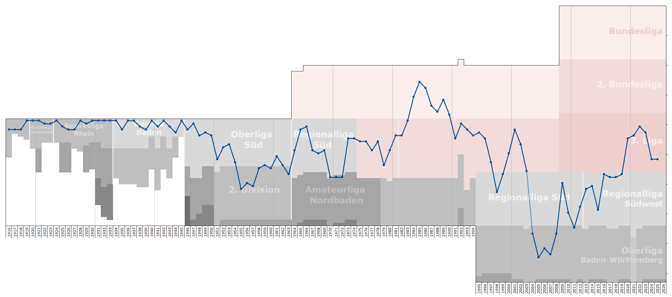 Chart of end-season table positions of Waldhof Mannheim in the football league system of Germany. Data source: RSSSF, wikipedia, f-archiv.de, fussball.de